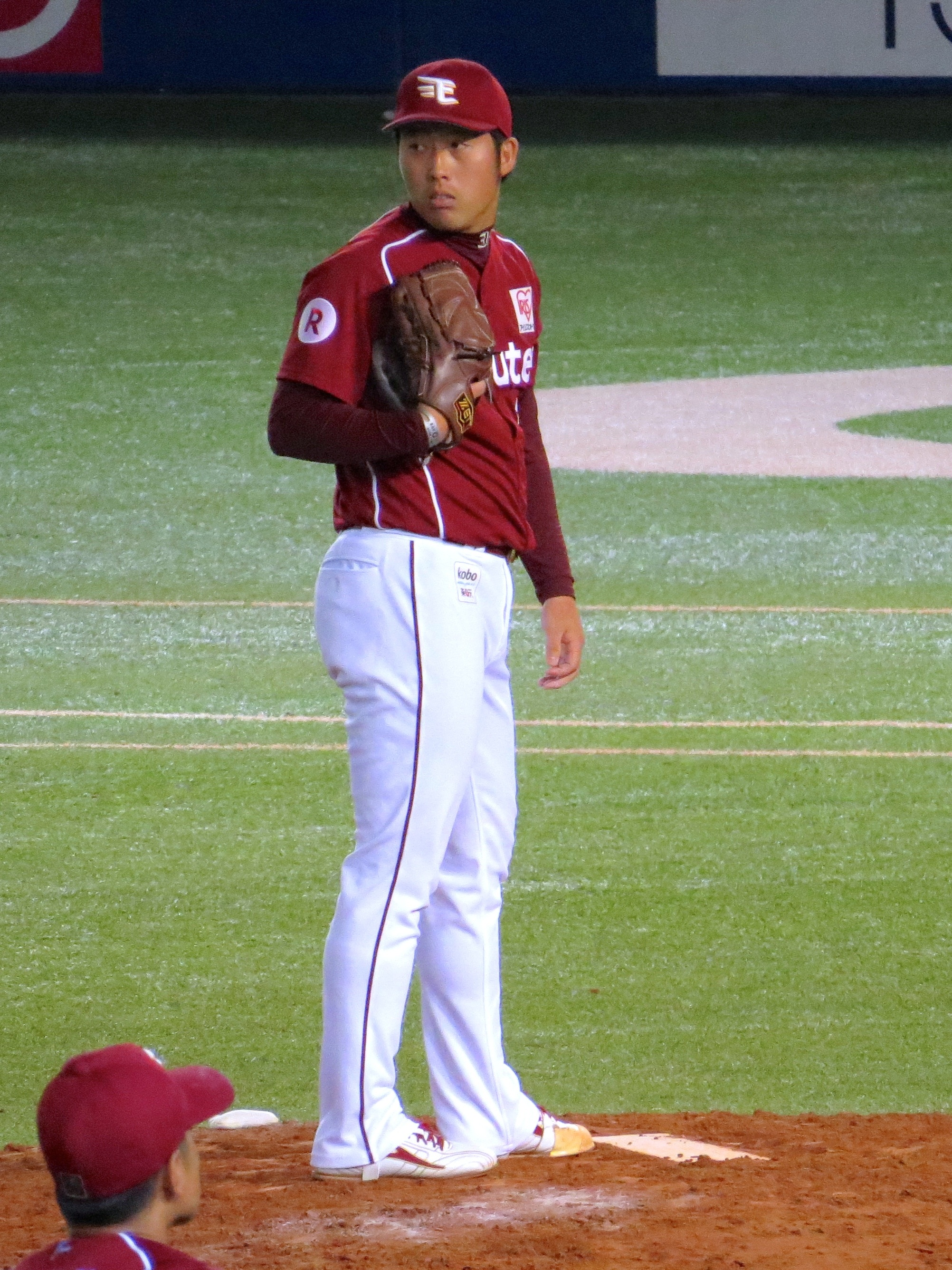 Yusuke Nishimiya, pitcher of the Tohoku Rakuten Golden Eagles, at Chiba Marine Stadium.